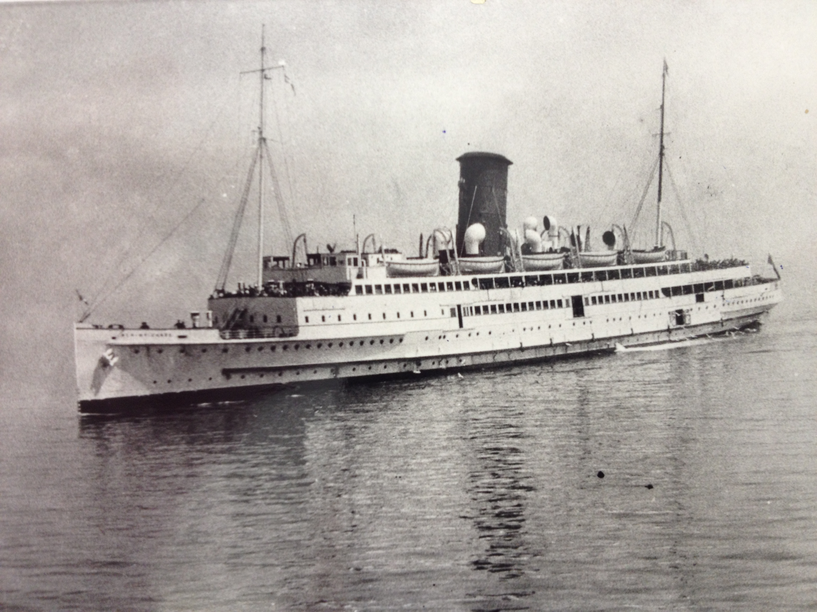 Isle of Man Steam Packet Company steamer Ben-my-Chree, pictured during the 1930's.